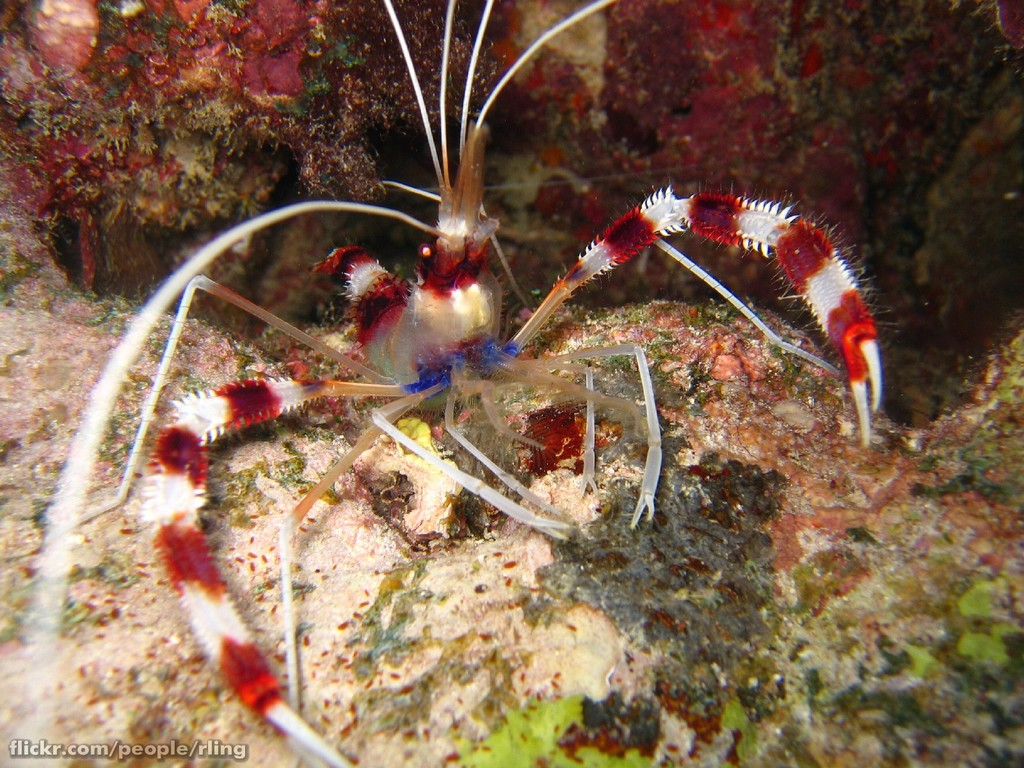 A Banded Coral Shrimp (Stenopus hispidus). Cod Hole, Ribbon Reefs, Great Barrier Reef